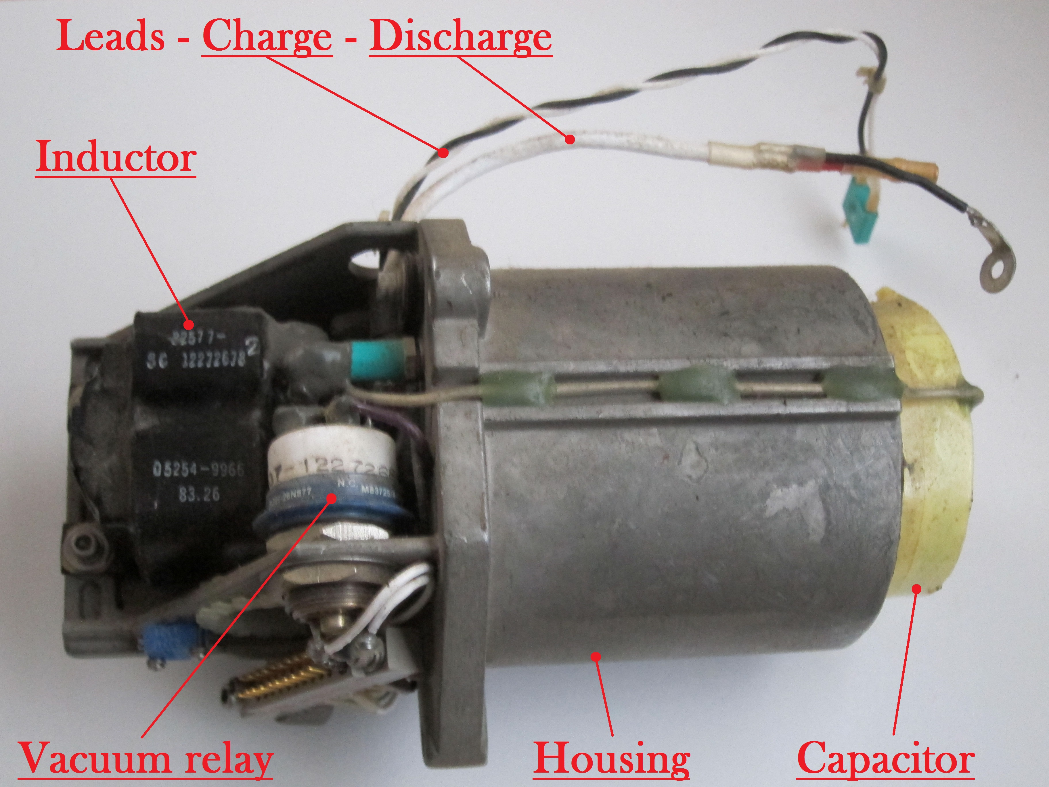 A pulse forming network (PFN) for a military Nd:YAG laser range-finder, originally used on M1 tanks. Within the aluminum housing, the main components are the large paper-capacitor (yellow), and the inductor (black). The PFN is 6 inches long by 2 1/2 inches wide.